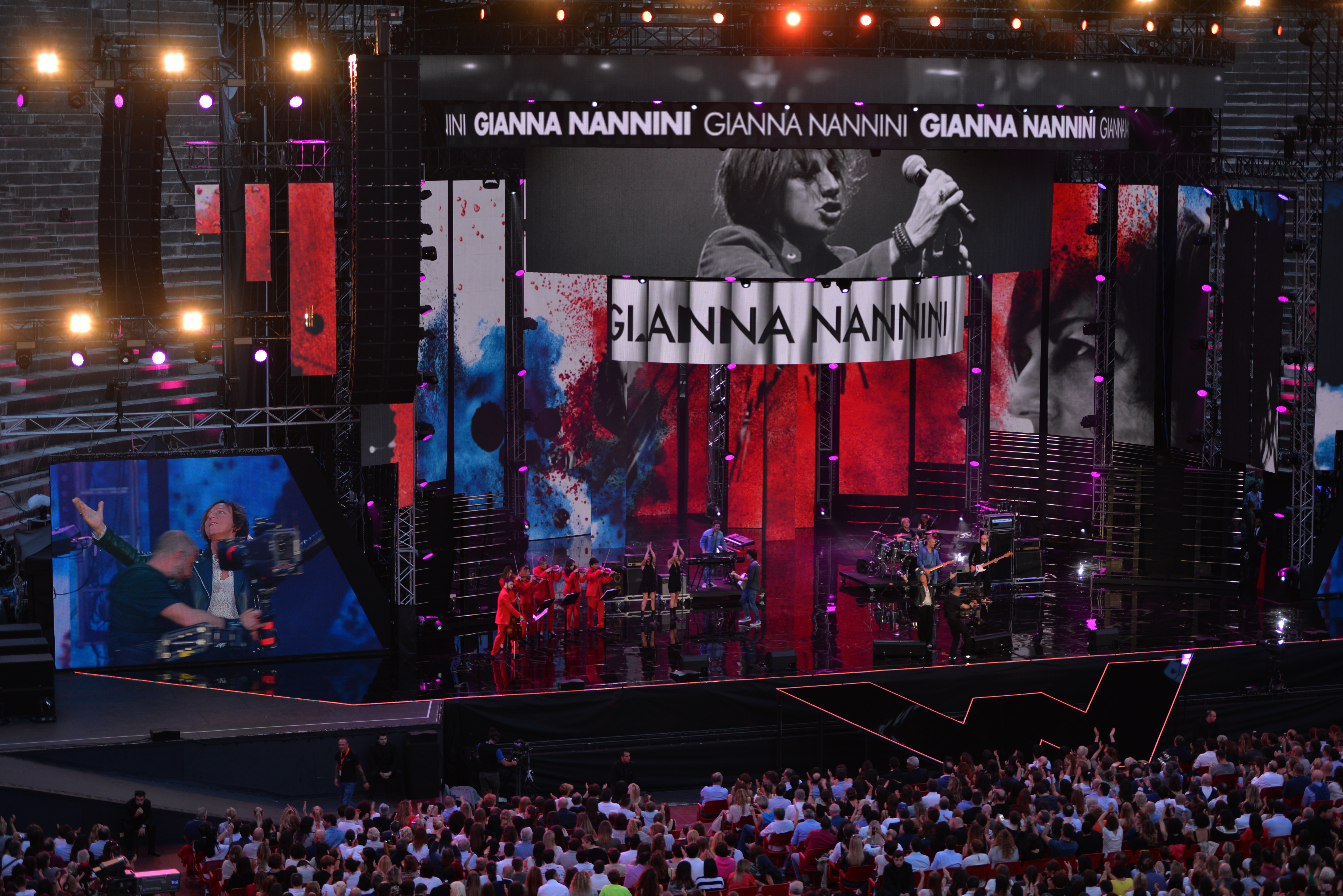 Gianna Nannini at the Wind Music Awards 2016 ceremony at Verona Arena